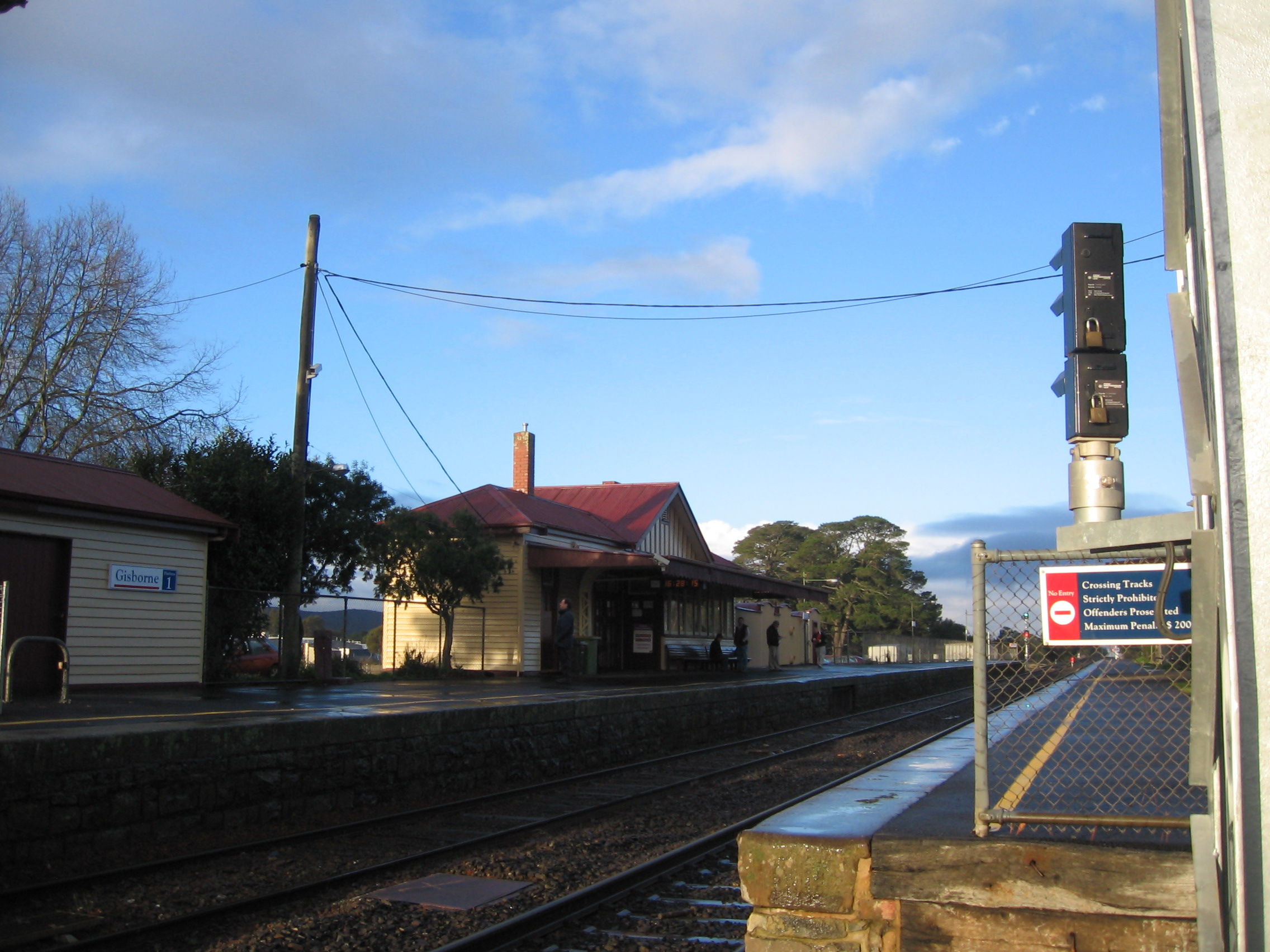 Gisborne Railway station at New Gisborne, Victoria